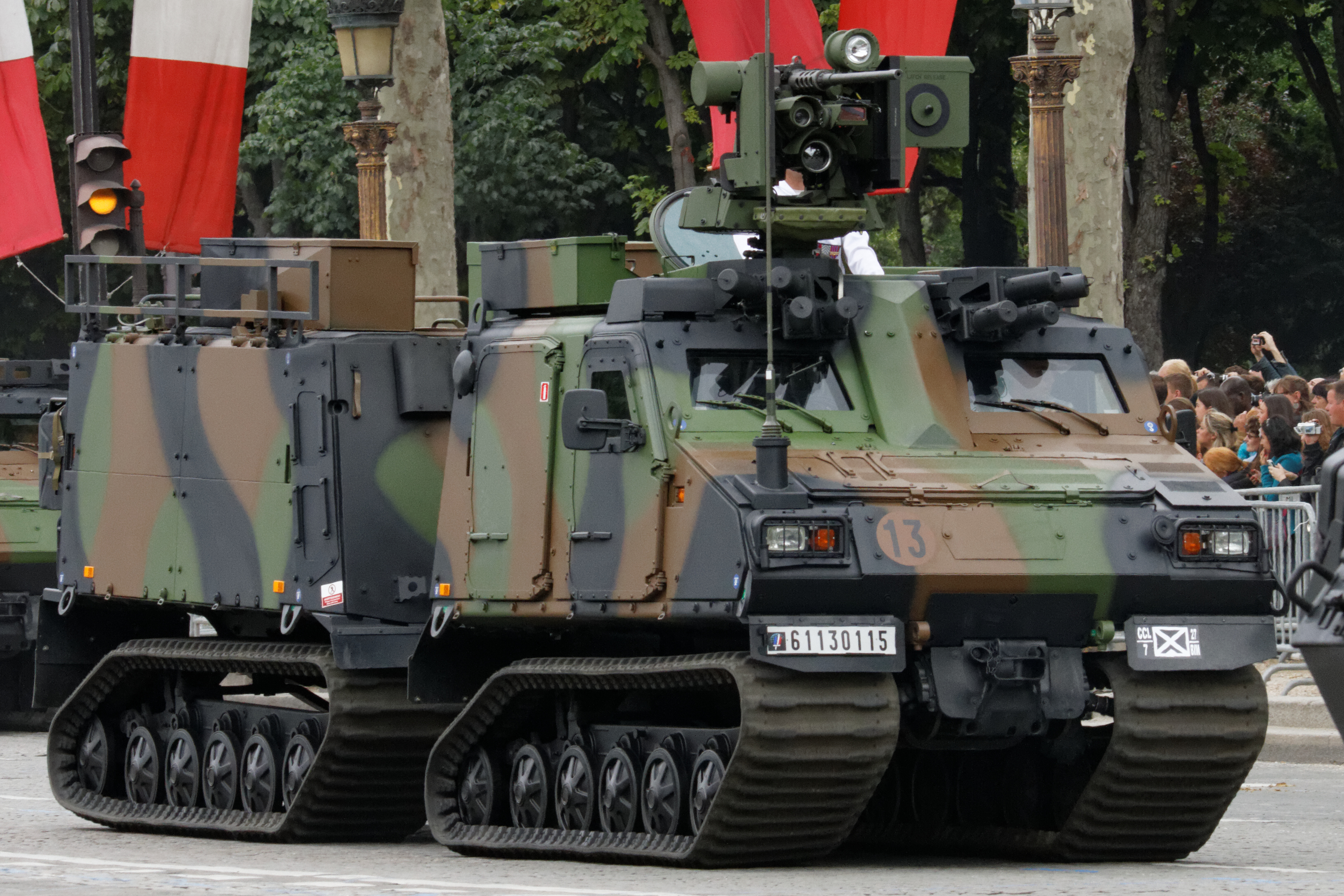 Bastille Day 2014 military parade on the Champs-Élysées in Paris. Motorised troops.